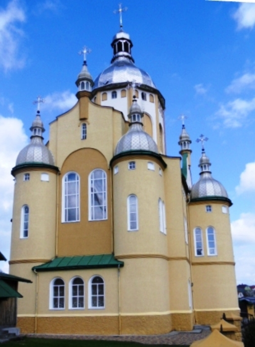 St. Nicholas Greek Catholic Church (2000). Velykyi Liubin, Lviv Oblast.